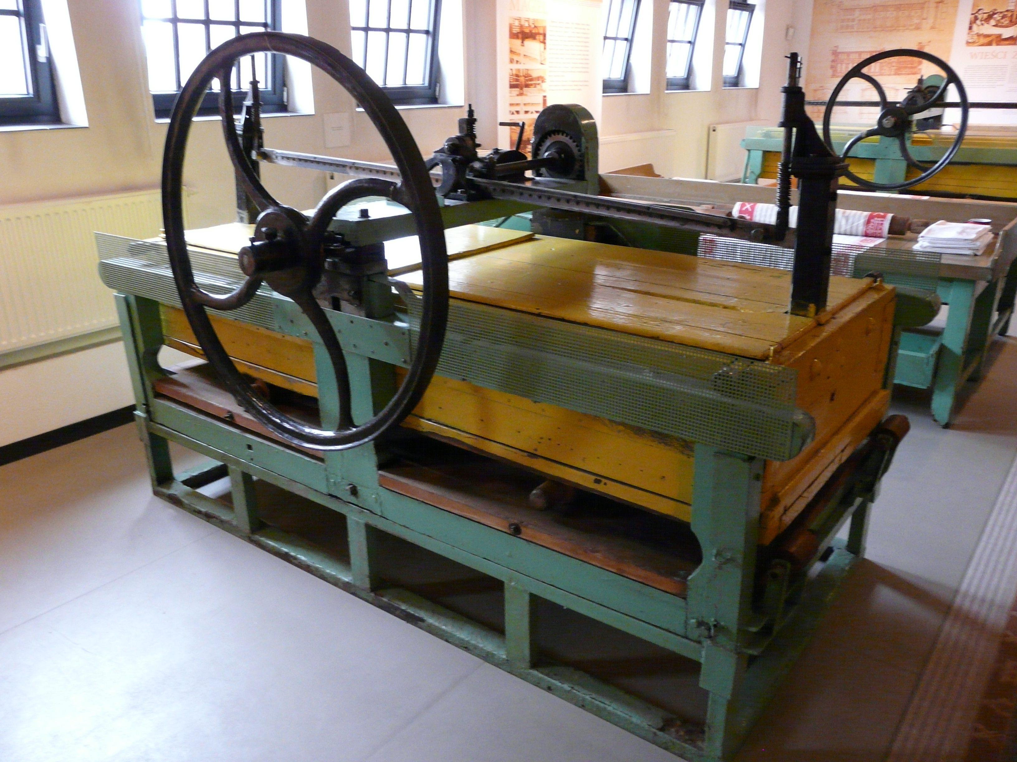 Katowice, Nikiszowiec. Muzeum Historii Katowic. From the collections: "U nos w doma na Nikiszu" (depictions of average households, pics 18-49) and "Woda i mydło najlepsze bielidło" (depictions of communal laundry, pics 5-17).